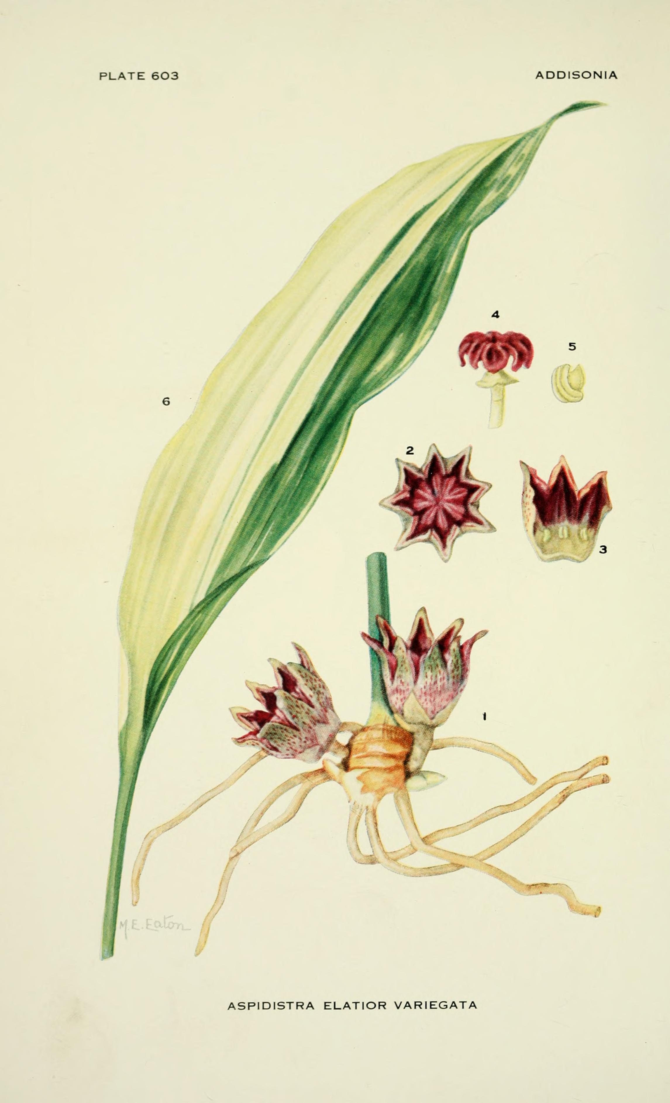 Title: Addisonia : colored illustrations and popular descriptions of plants Year: 1916-(1964) (1910s) Authors: New York Botanical Garden Subjects: Plants; Plants -- United States; Plants Publisher: New York : New York Botanical Garden Text Appearing Before Image: PLATE 603 ADDISONIA Text Appearing After Image: ASPIDISTRA ELATIOR VARIEGATA